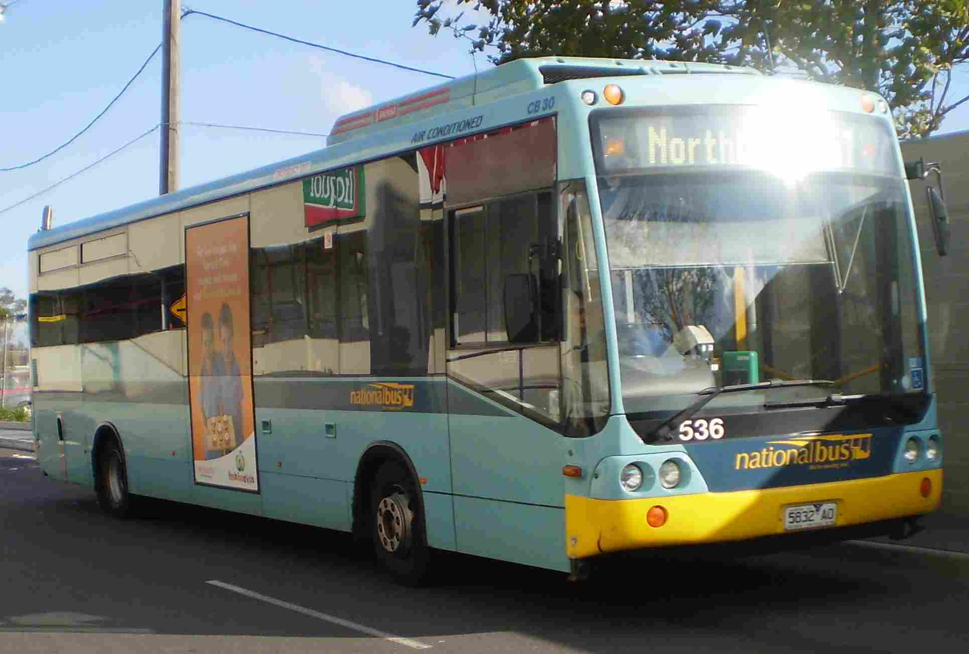 A NationalBus Company bus at Northland SC, with the new blue and yellow livery.